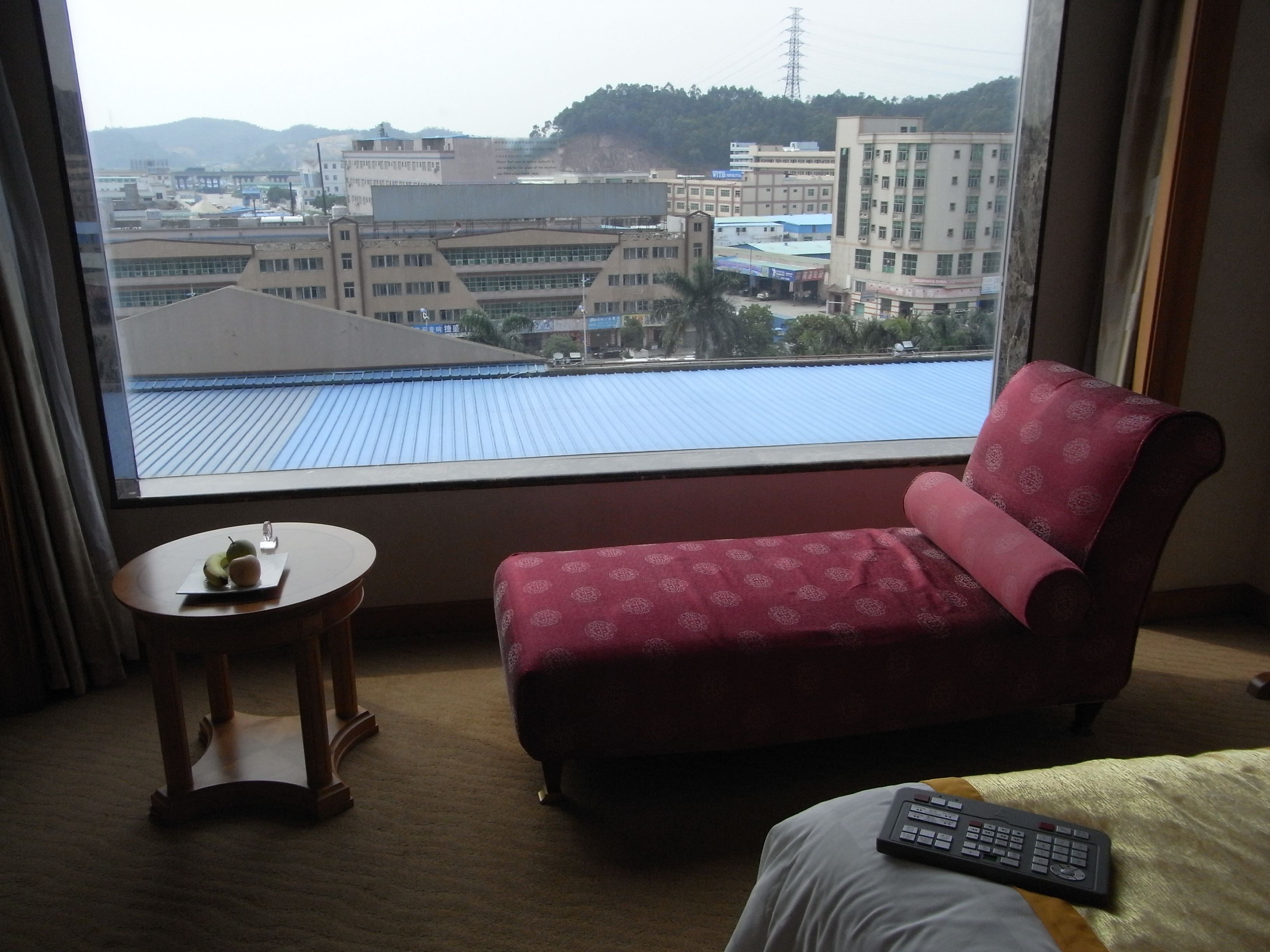 廣東 東莞太子酒店 房間